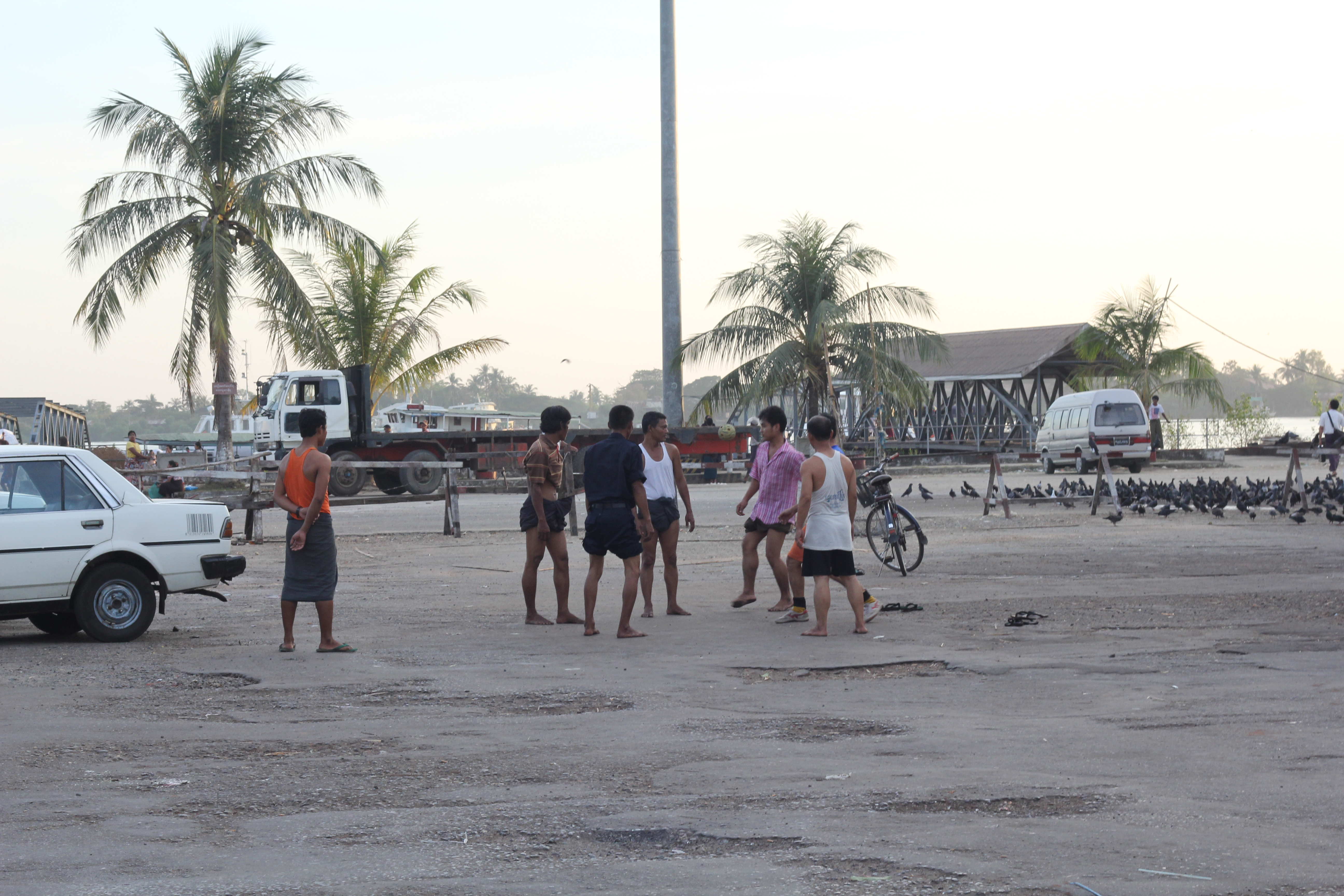 Playing Chinlone near Botataung harbour.မြန်မာဘာသာ: ခြင်းလုံး ကစားနေစဉ်။